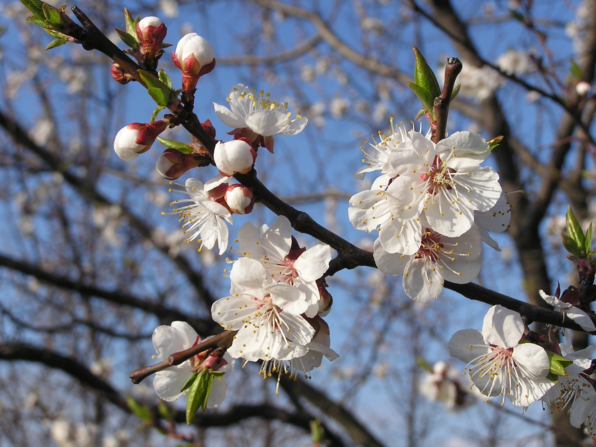 flowers of Prunus armeniaca